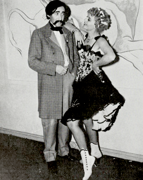 Gloria Stuart with husband Arthur Sheekman, both in costume. From Photoplay, Nov. 1937.